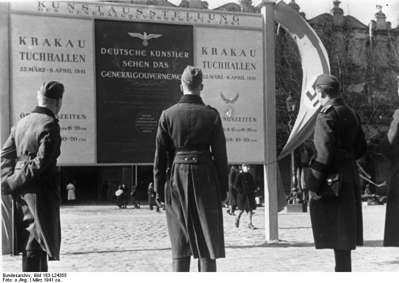 German soldiers in Krakow, Poland in front of a sign promoting an art exhibition in the Cloth Hall entitled "German artists see the General Government". The General Government was the occupied area of Poland (minus western Polish territories annexed directly to the German Reich) under Nazi German rule from 1939 to early 1945. The Cloth Hall (Sukiennice) dates to the Renaissance and is one of Krakow's most recognizable buildings.